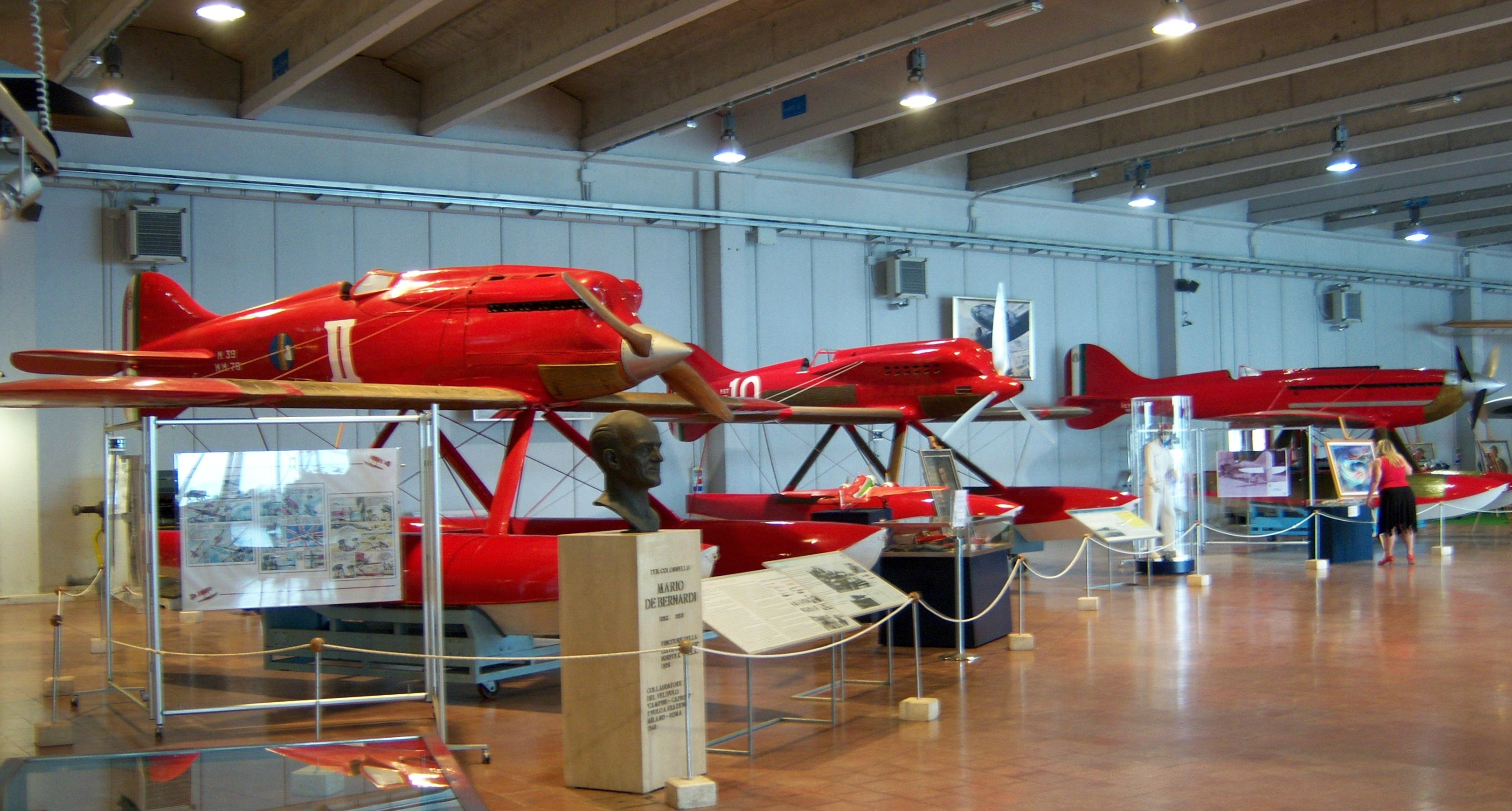 Aeronautica Macchi seaplane race exposed to the Air Force Museum in Vigna di Valle. From left to right: Macchi M.39, which won the Schneider Cup in 1926, the Macchi M.67, which participated in the Schneider Cup in 1929, the Macchi-Castoldi MC72, built to participate in the Schneider Cup in 1931 and holder of the speed record for piston-engine seaplane